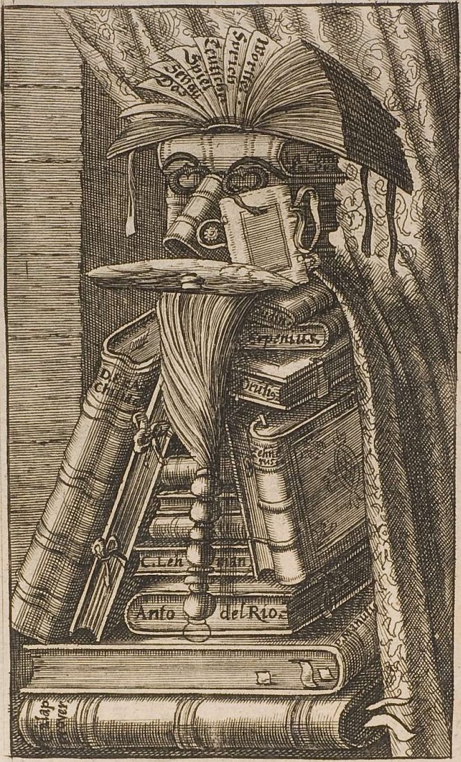 Engraving, reworking of the famous 16th century painting by Giuseppe Arcimboldo, The Librarian.